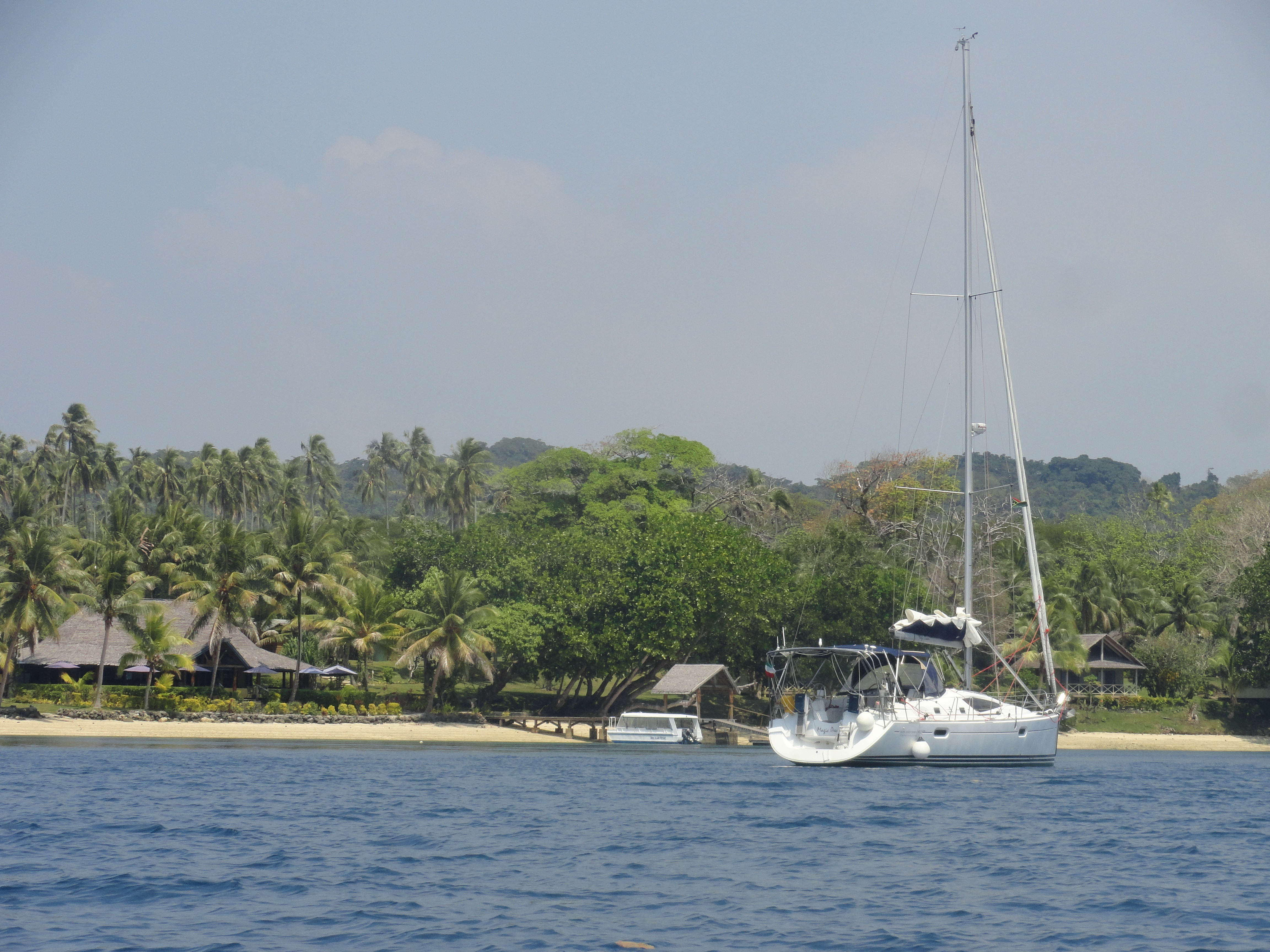 Approaching Aore Island Resort by boat from Luganville, Vanuatu